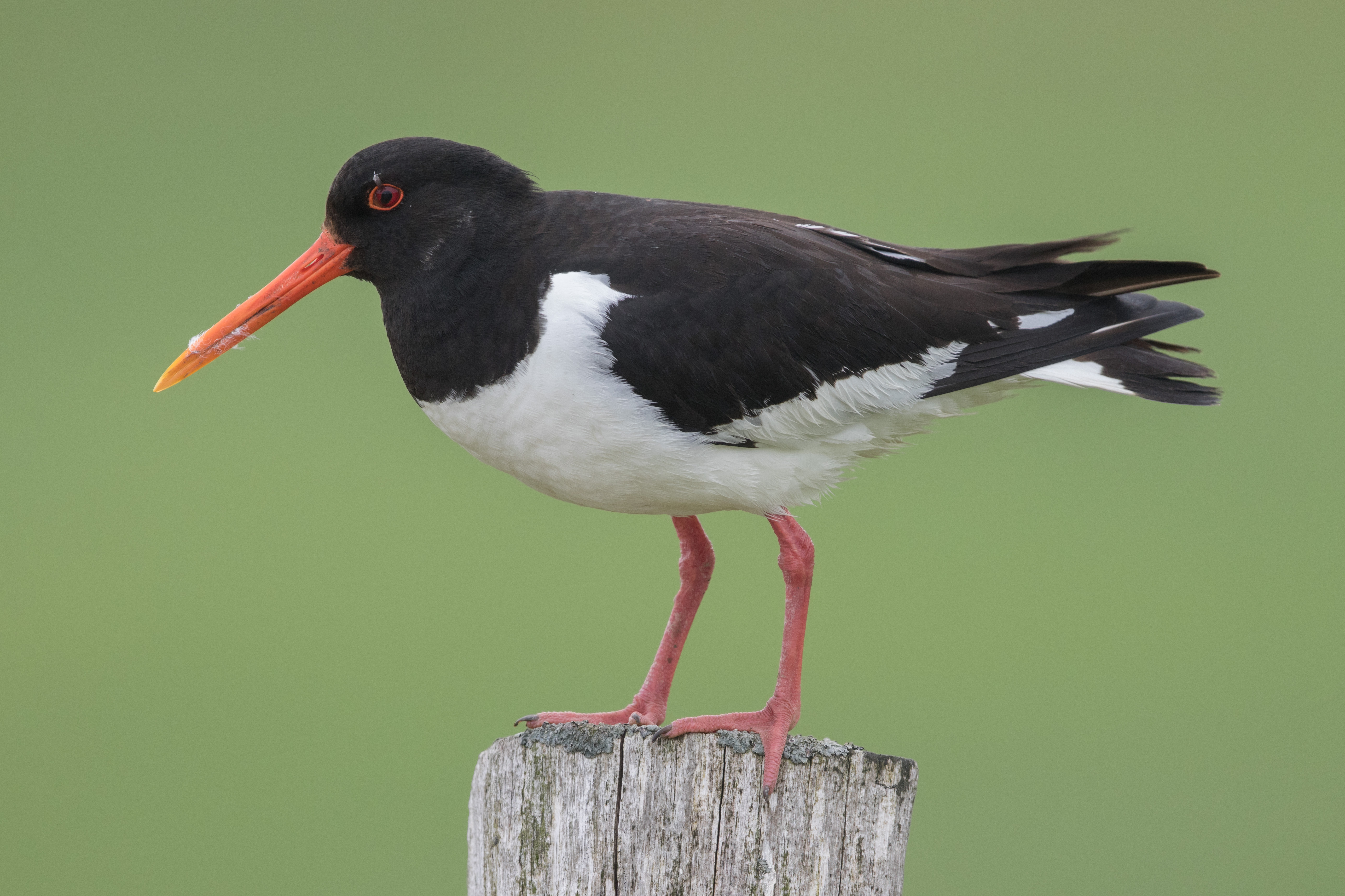 Eurasian Oystercatcher